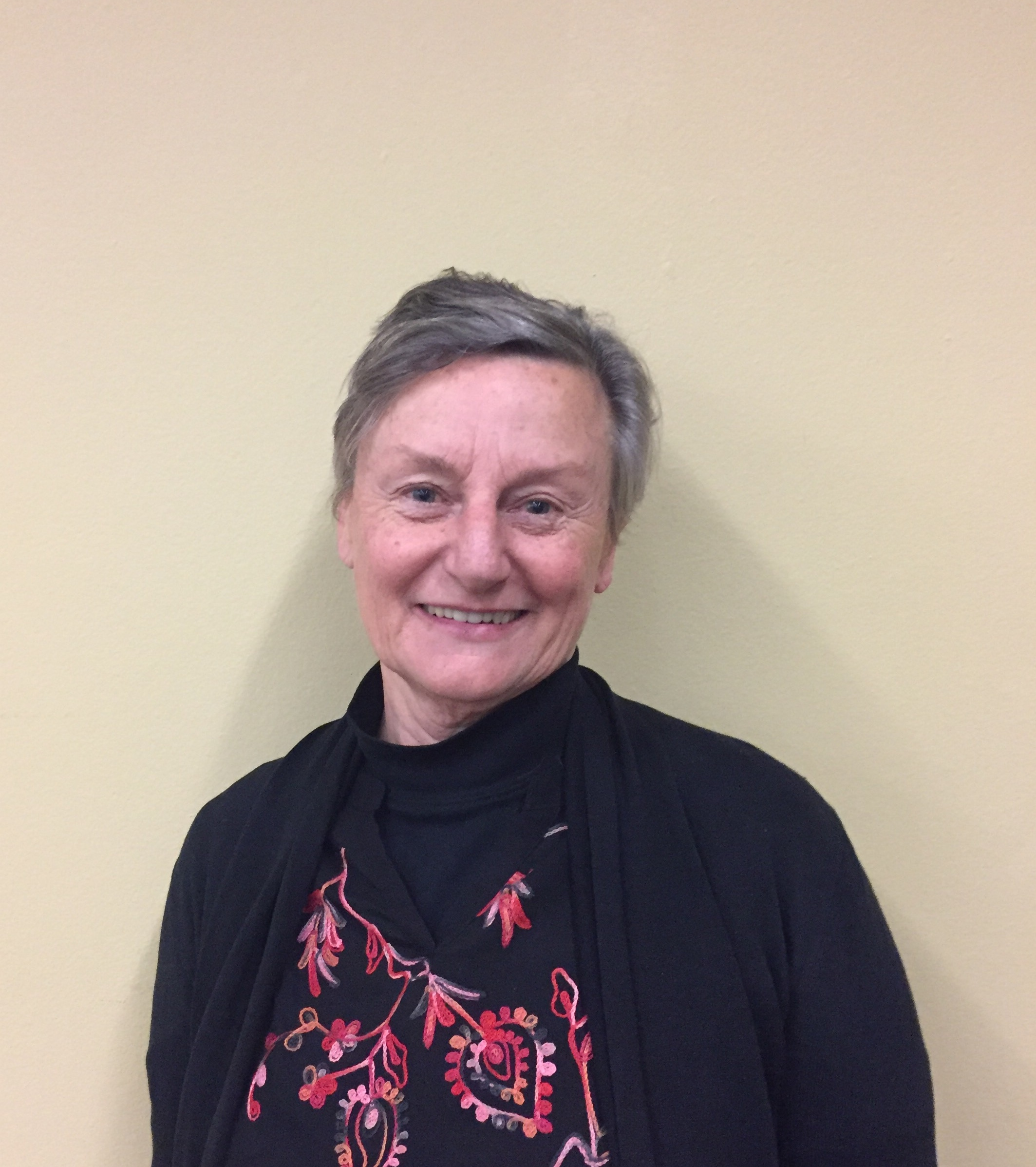 Photograph of scientist, Jane Dyson.